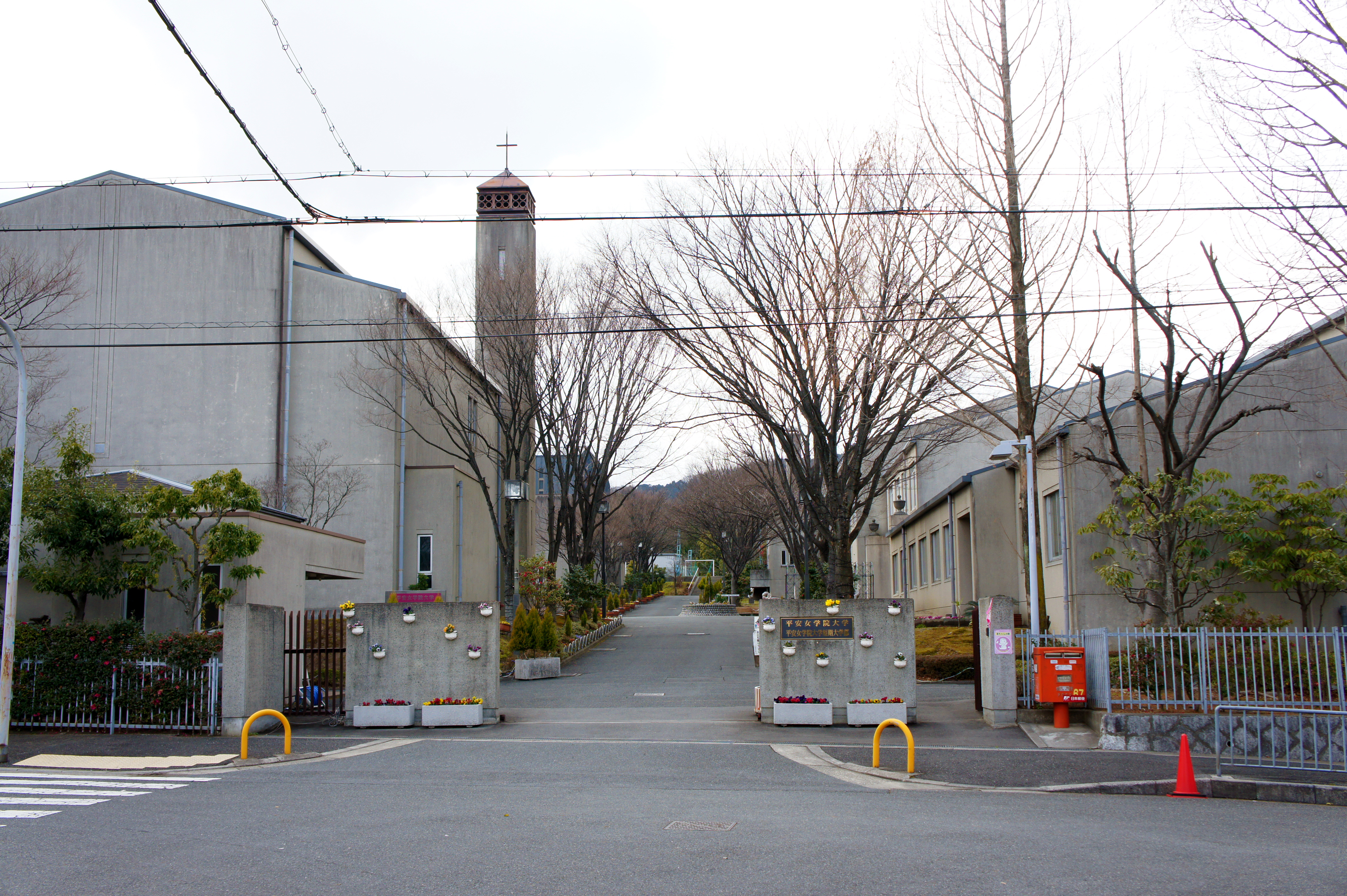 Heian Jogakuin(St.Agnes')University Takatsuki Campus, 5-81-1 Nampeidai Takatsuki-City Osaka JAPAN